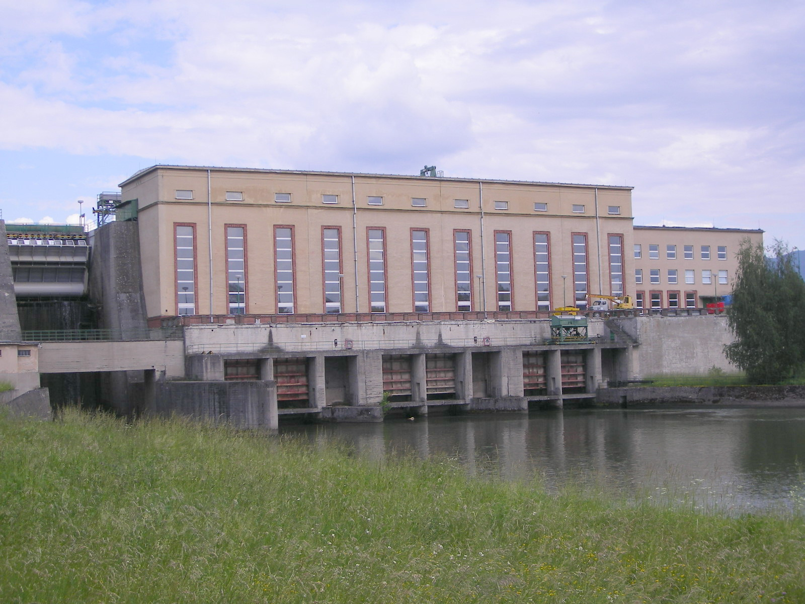 Sučany - hydroelectric power plant